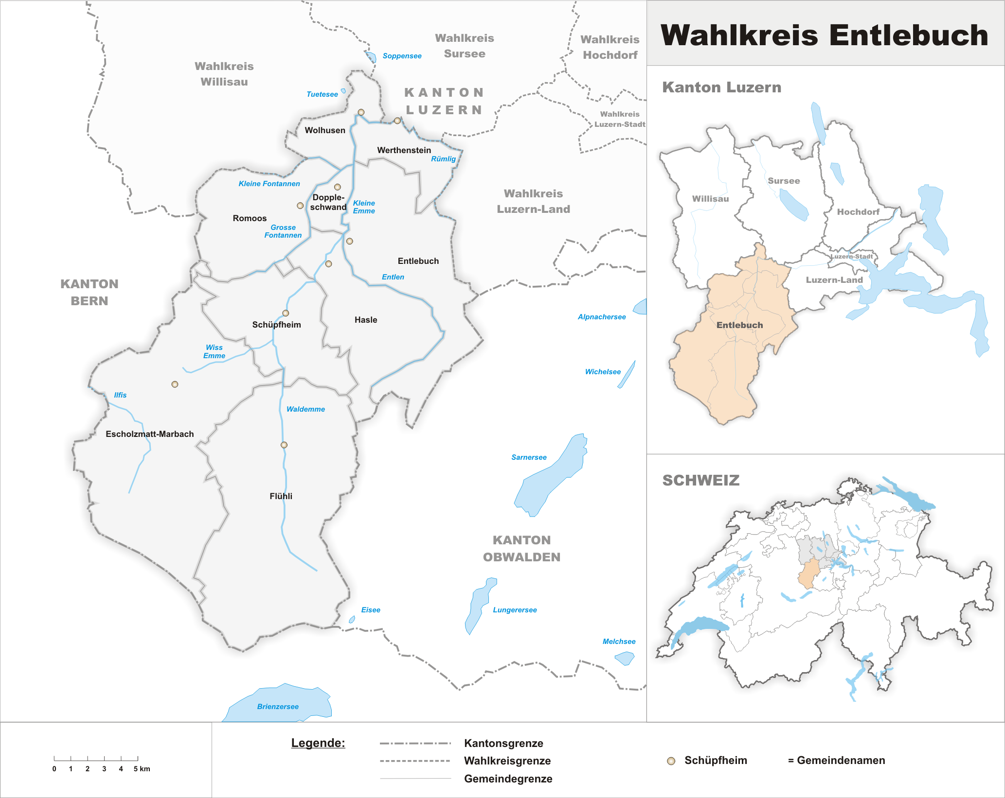 Municipalities in the district of Entlebuch Map drawn by Tschubby